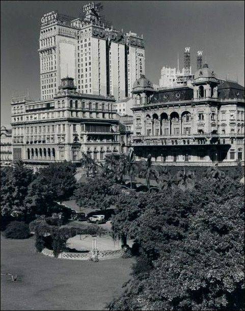 Palacetes Prates, 1930s